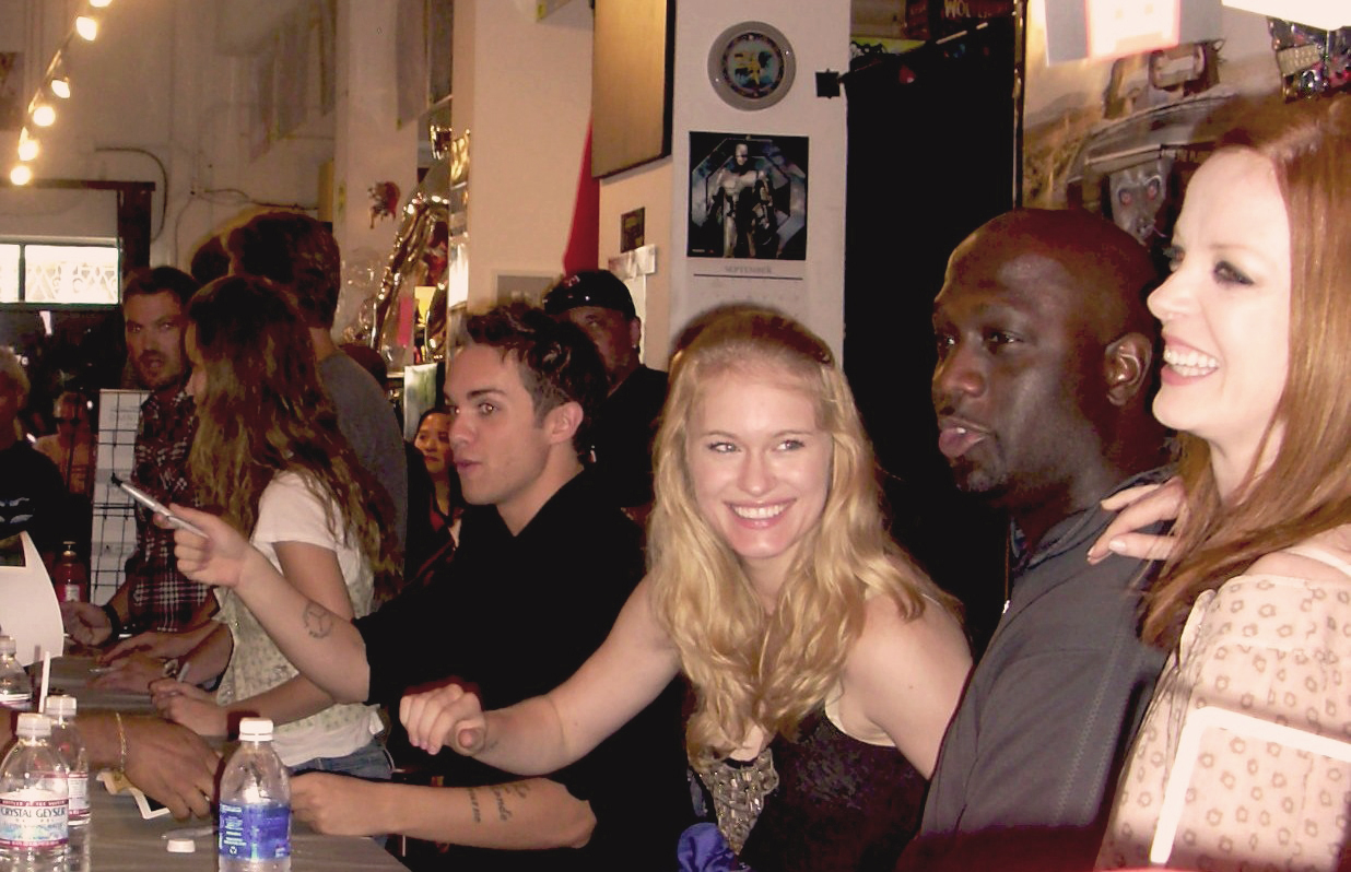 Meet the Cast of "Terminator: The Sarah Connor Chronicles" Signing and Screening Event, Golden Apple Comics on Melrose - Sat., Sept. 13, 2008